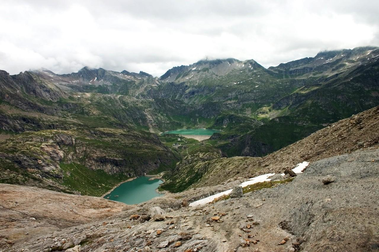 Lake Zött (foreground) and Robiei (background), canton of Ticino.